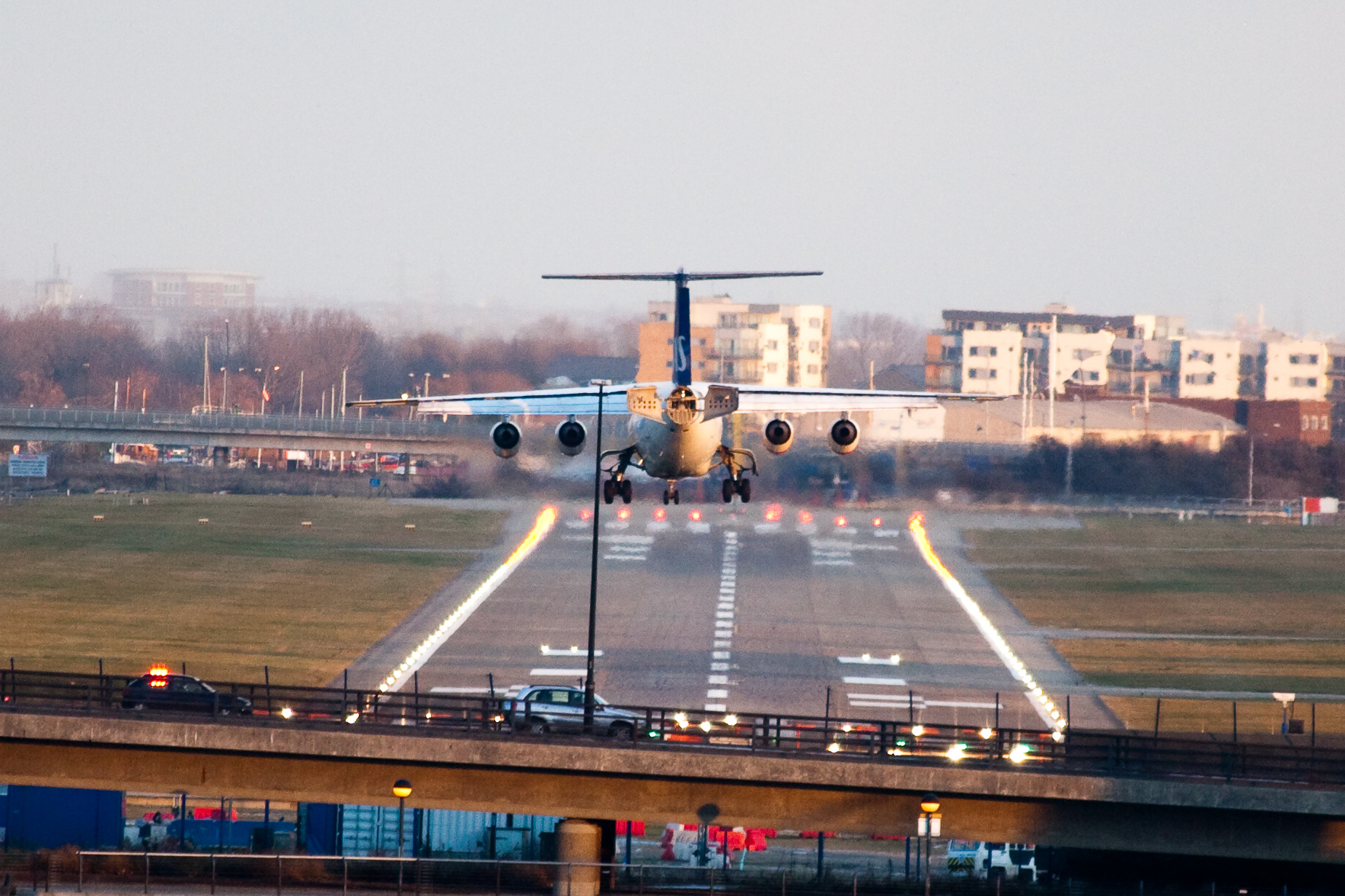 Scandinavian Airlines Avro RJ landing at London City Airport